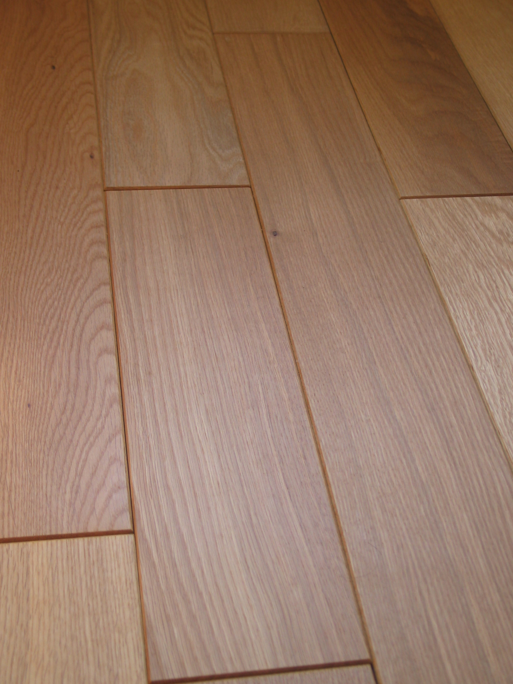 Wooden flooring